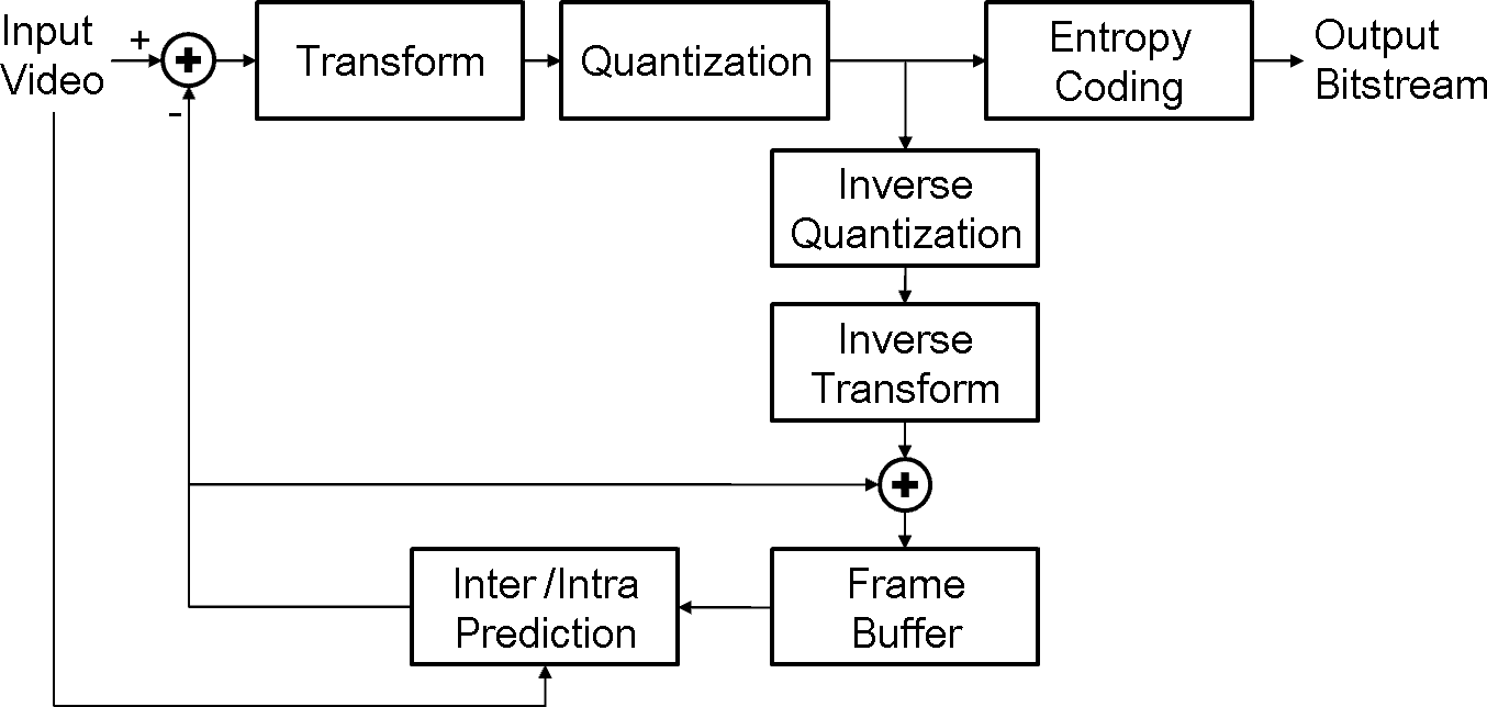 The block diagram of a typical video encoder